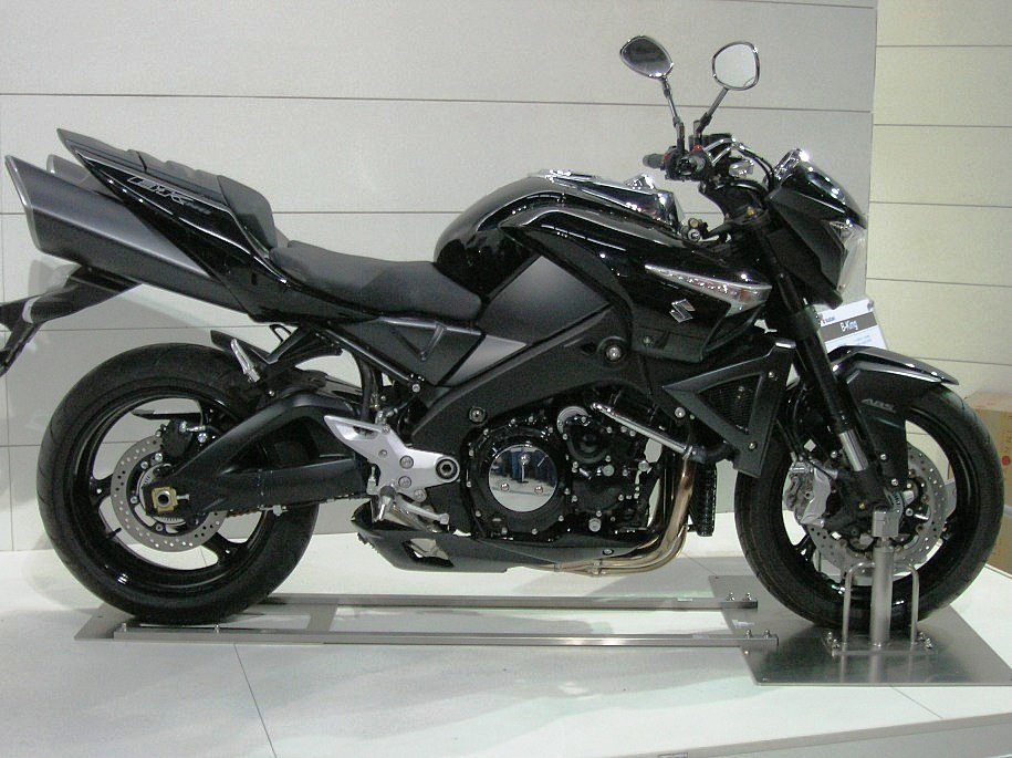 The Suzuki Bking - The real King of Bikses, exhibited in AutoExpo 2008